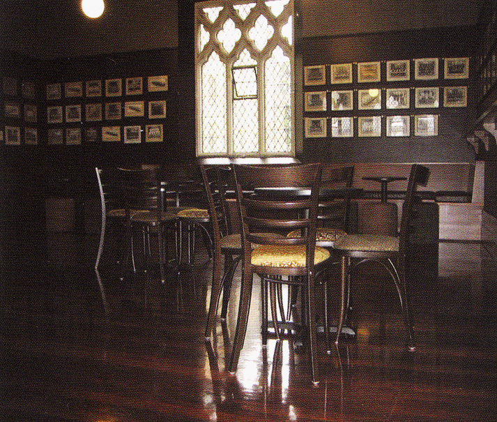 Dali Junior Common Room, St John's College, University of Sydney. Author: John Polding